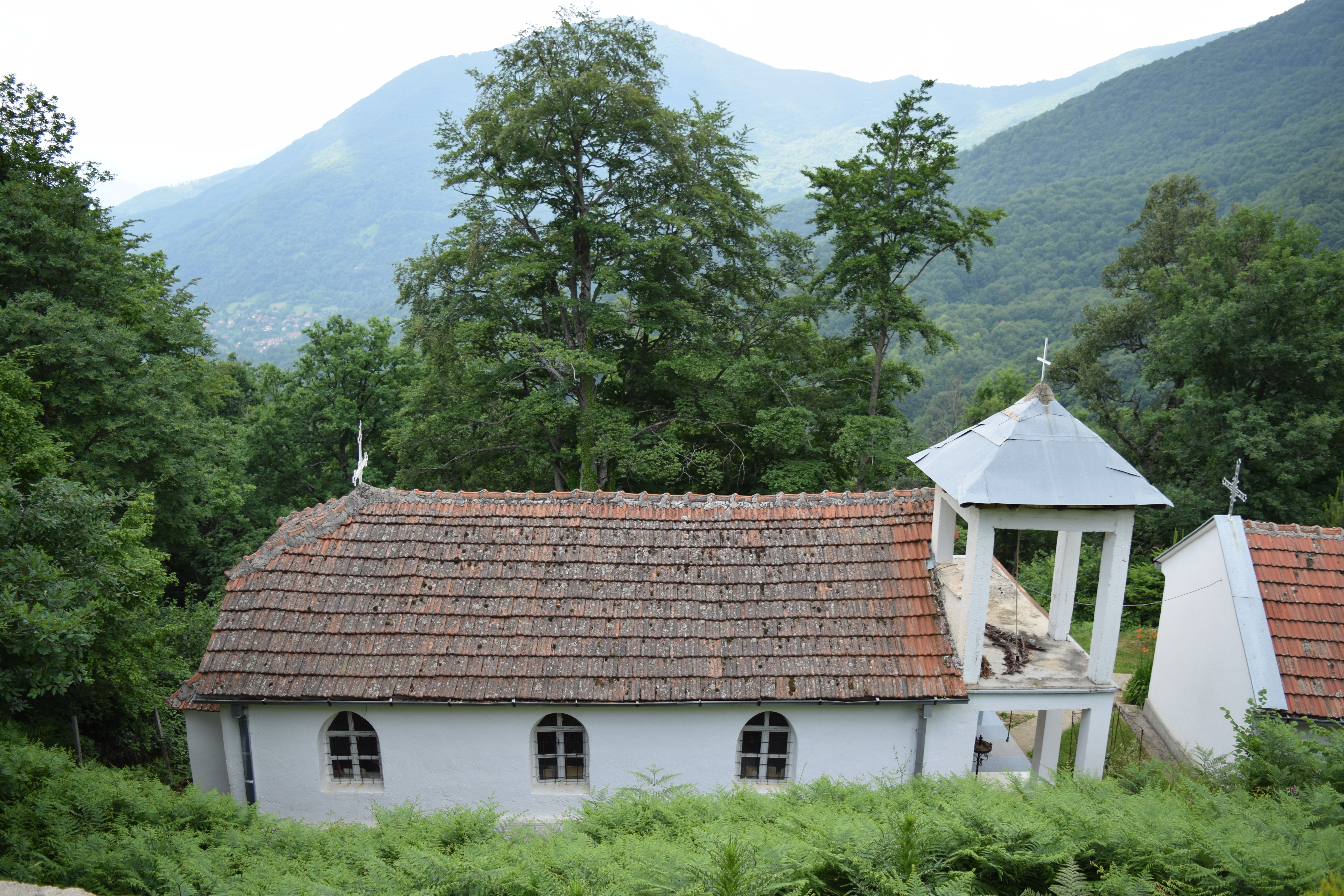 View of the St. George's Church in the village Oreše